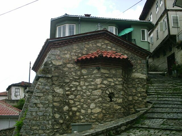 Town of Ohrid, SW corner of the Republic of Macedonia